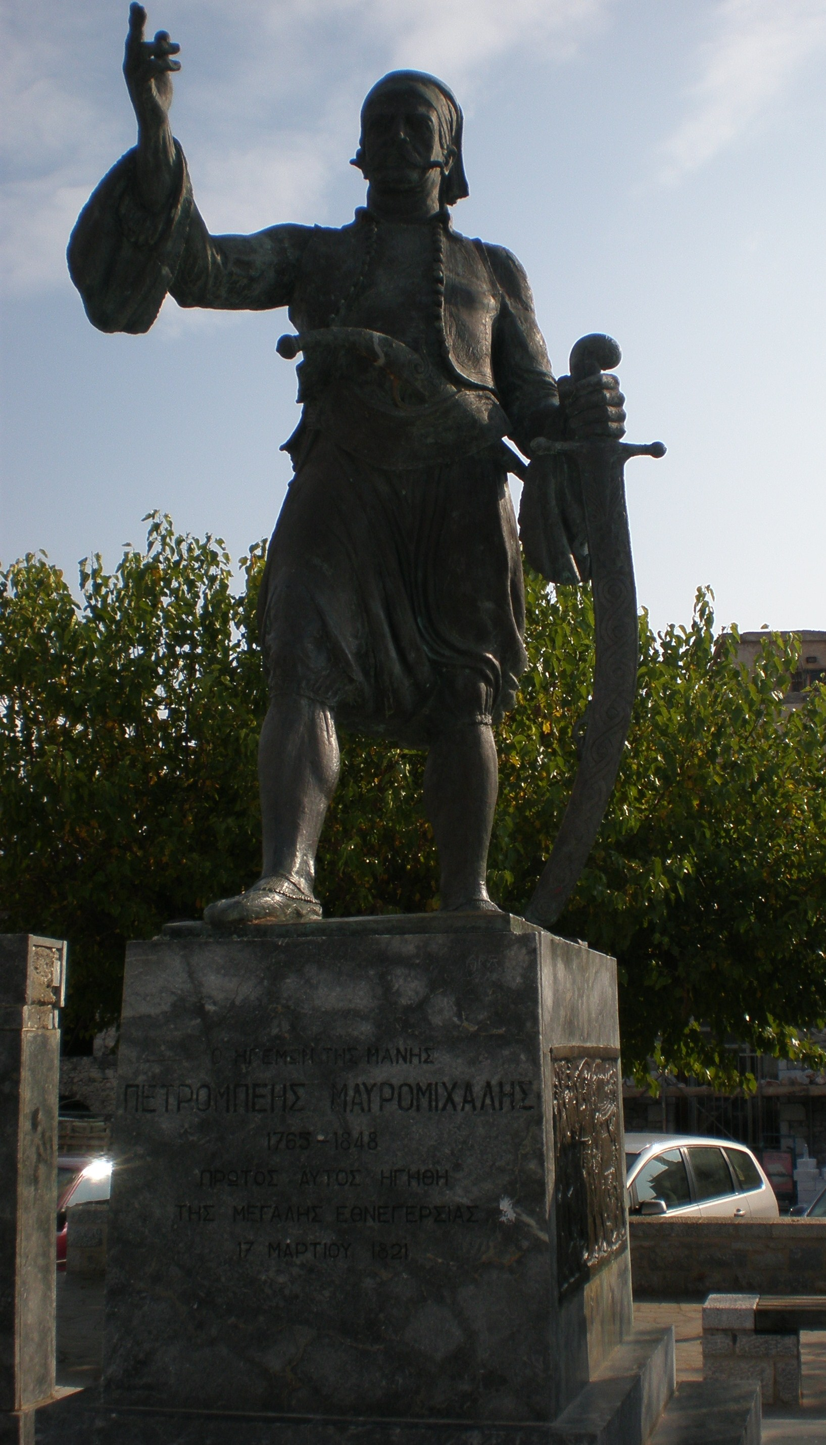 Statue of Petrobeis Mavromichalis in Areopoli.